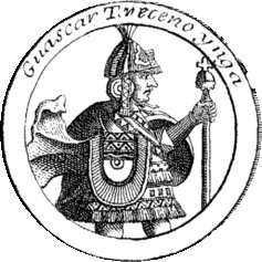 Portrait of Huascar in the frontispiece to the fifth Decade of Historia general de los hechos de los castellanos en las Islas y Tierra Firme del mar Océano que llaman Indias Occidentales by Antonio de Herrera